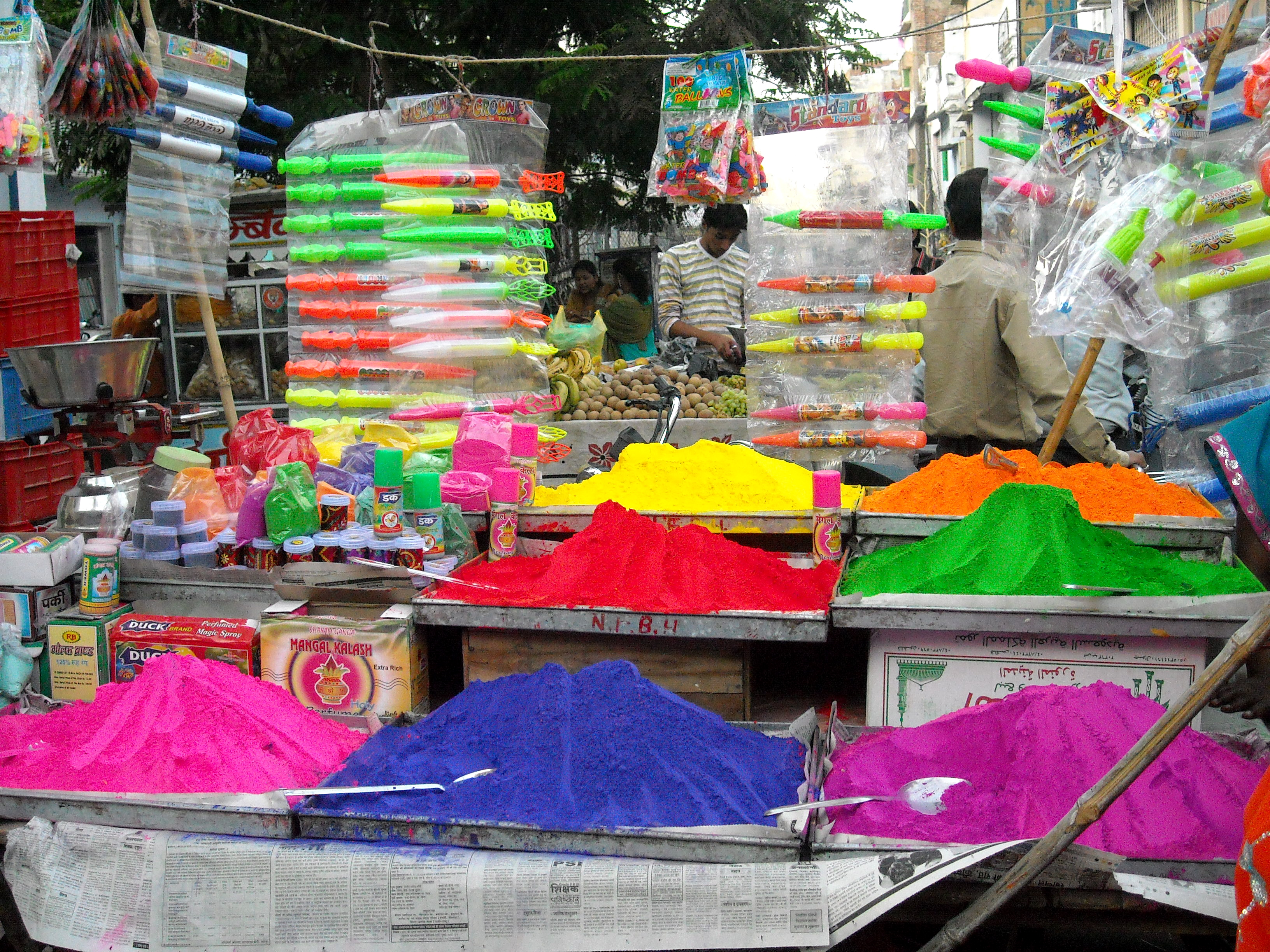 The water guns are made of plastic and hanging above the color pigments. Udaipur, Rajasthan 2009 India